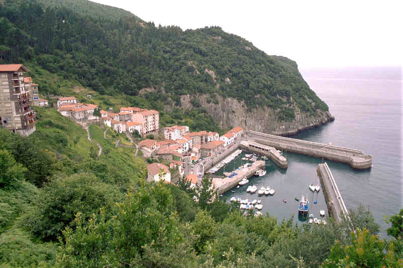 View of Elantxobe fishing town in Biscay, the Basque Country